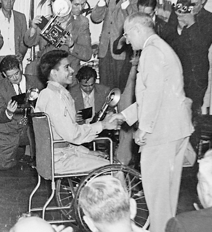 Photograph of Medal of Honor recipient Silvestre S. Herrera and President Harry S. Truman shaking hands at the Medal of Honor presentation ceremony in the East Room of the White House